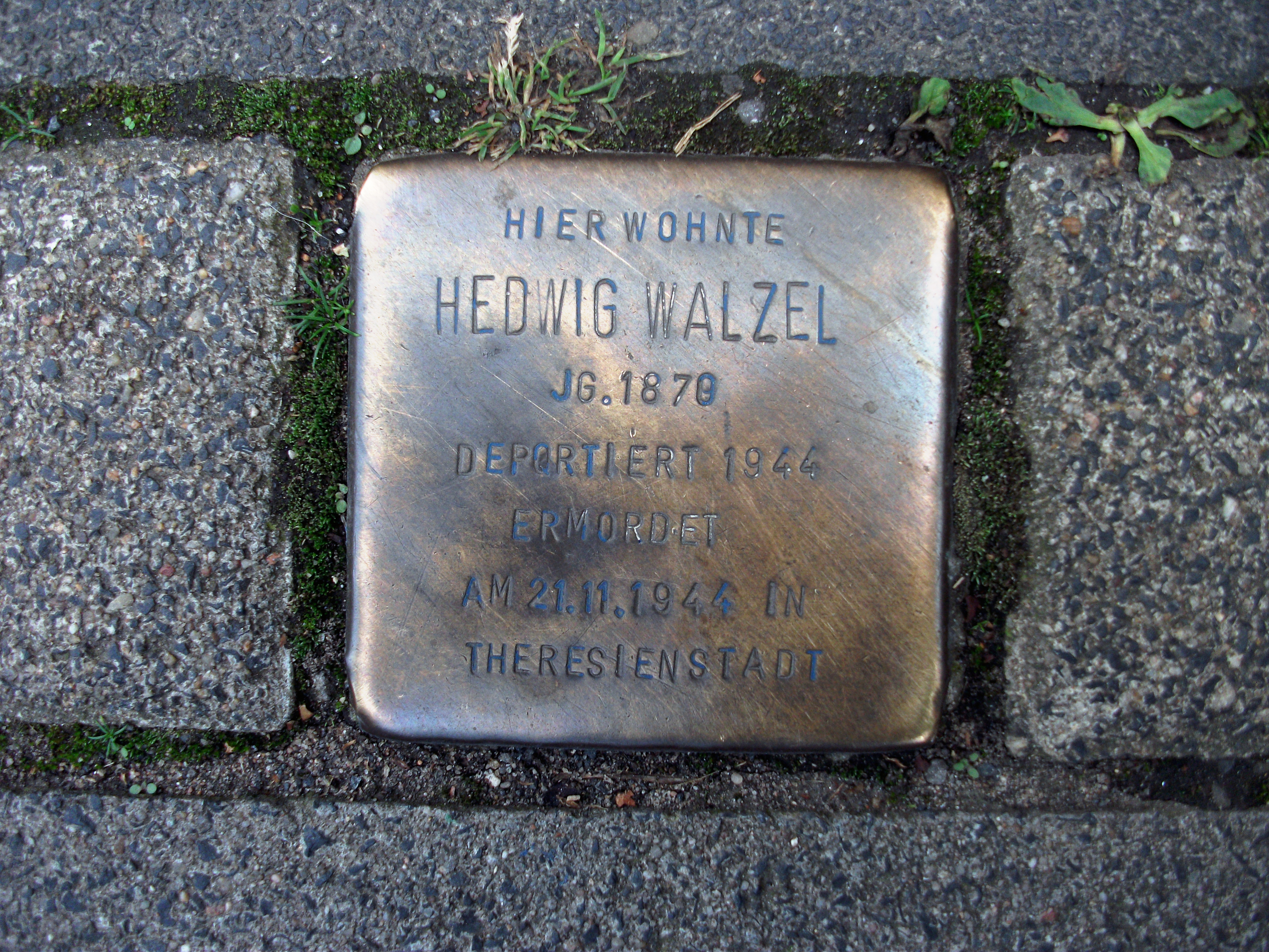 Stolperstein for Hedwig Walzel, Reuterstraße 114, Bonn